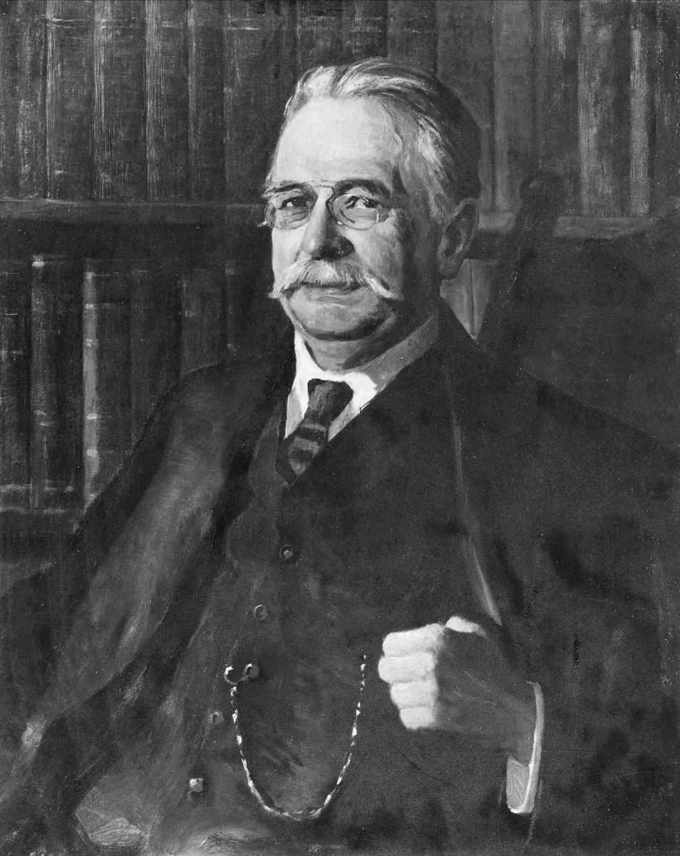 Norwegian professor of germanic languages Hjalmar Falk (1859–1928) in a 1923 painting by Norwegian painter Kristofer Sinding-Larsen (1873–1948)